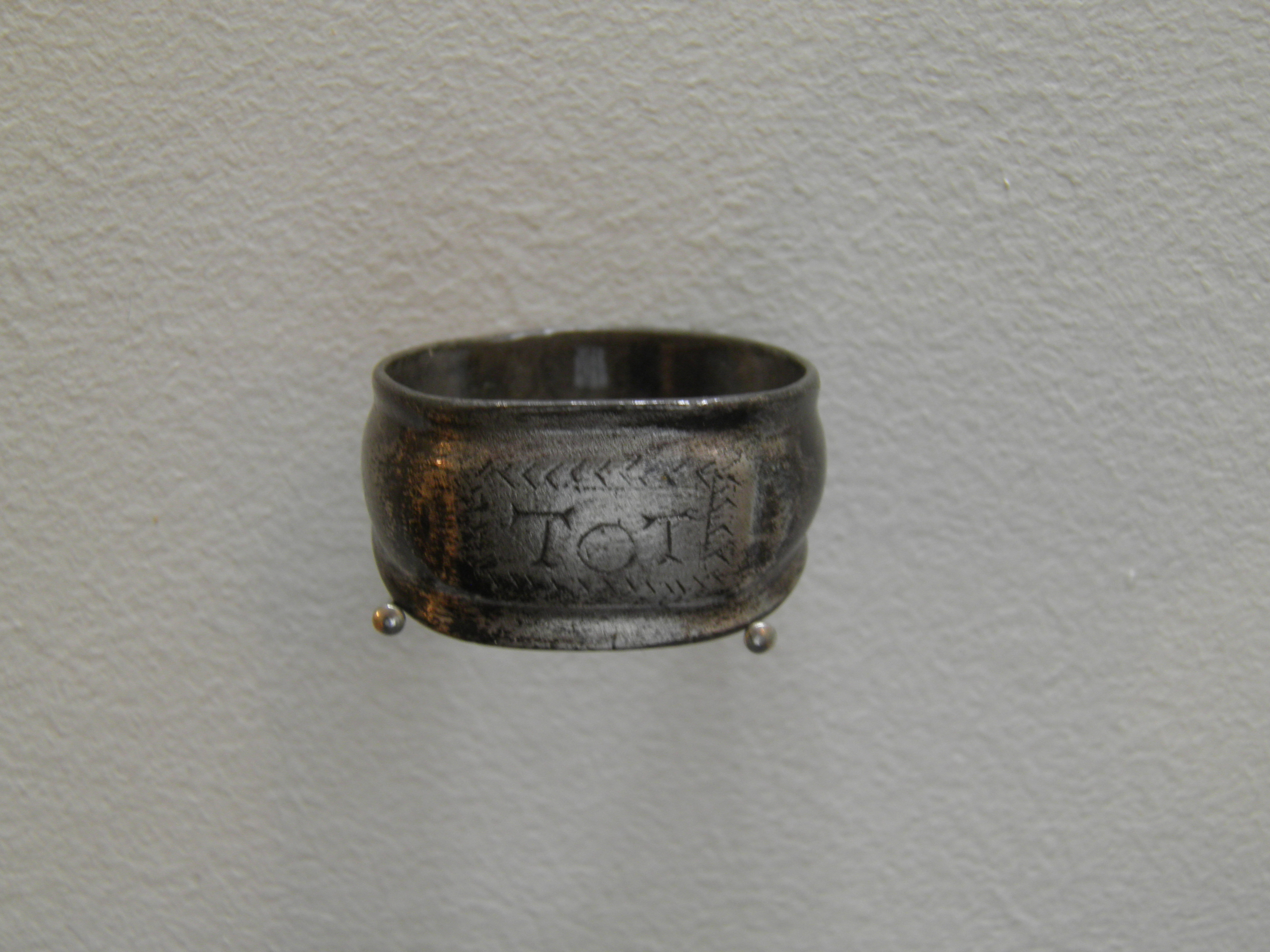 Yorkshire Museum, York (Eboracum)